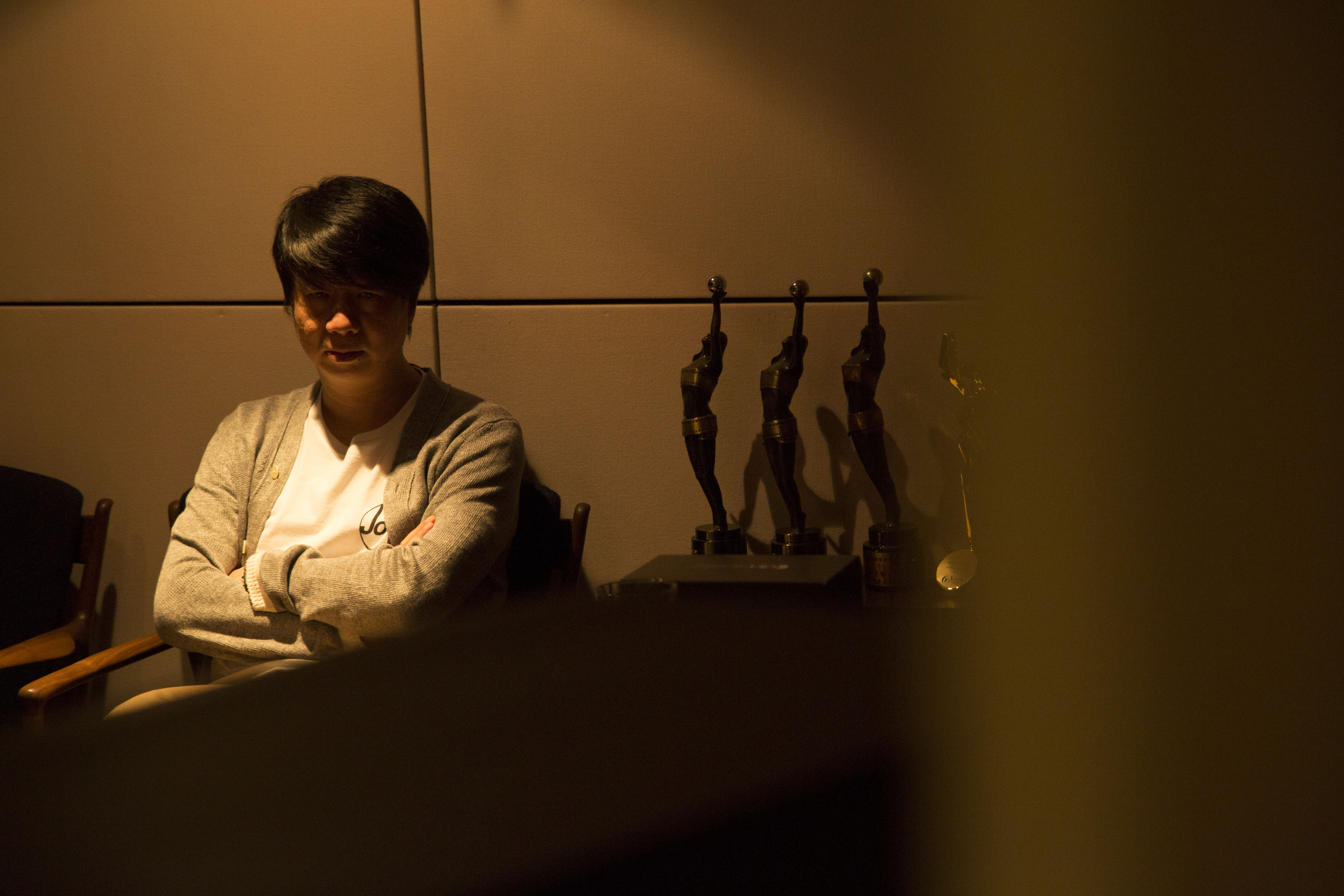 Chan Kwong-wing2